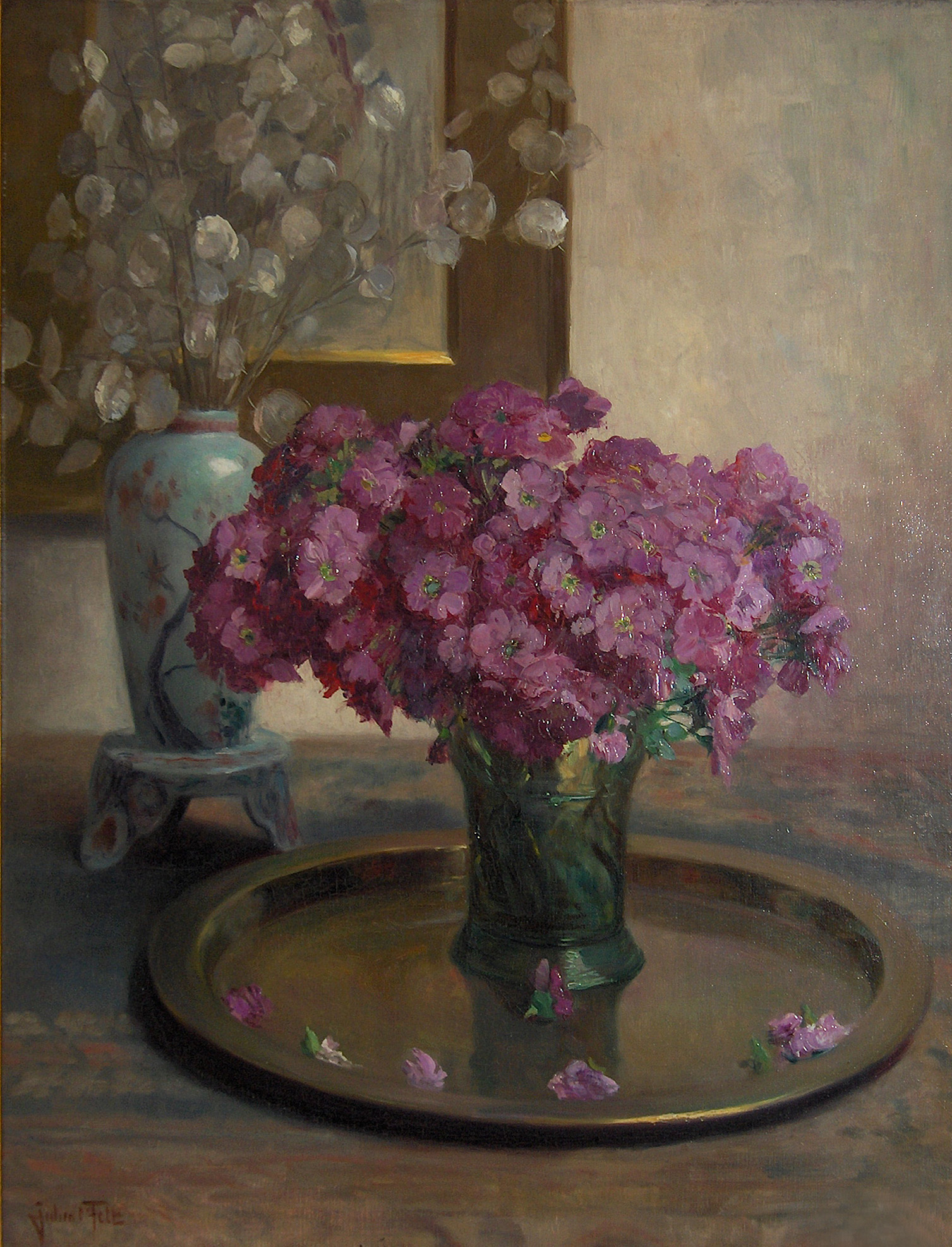 "Still life with flowers", oil painting on canvas (70 x 60 cm) by Julien 't Felt (1874-1933); private collection